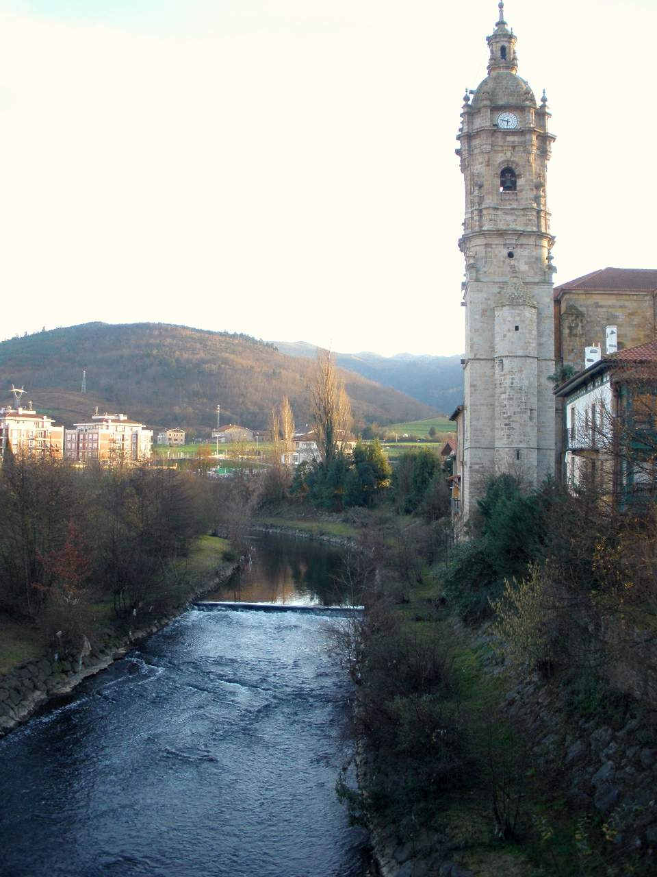 Amorebieta, Vizcaya: río Ibaizábal e iglesia de Santa María de la Asunción